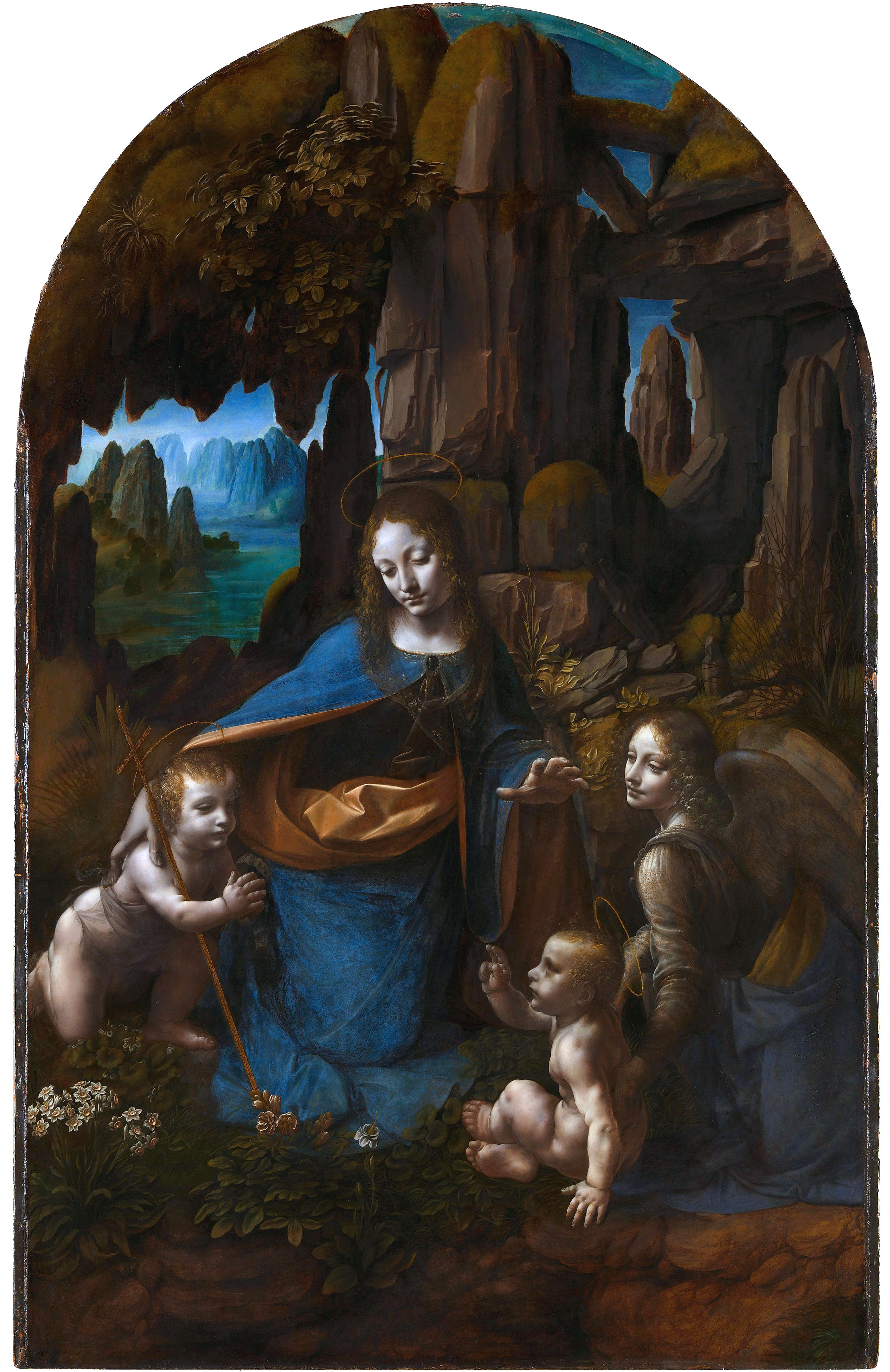 The Virgin with the Infant Saint John the Baptist adoring the Christ Child accompanied by an Angel. In this second version Mary and Jesus are depicted with a halo and John the Baptist with the cross